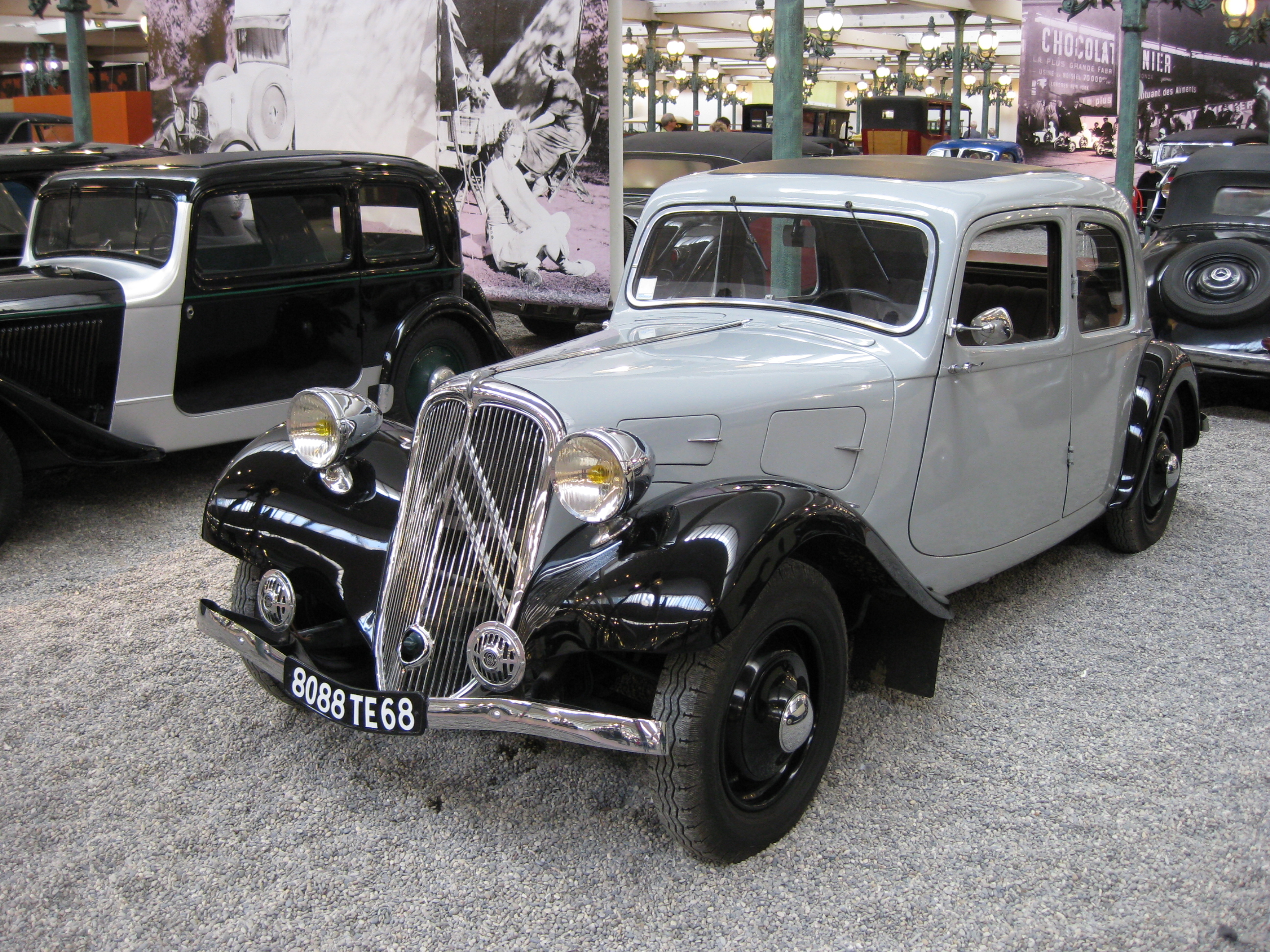 Citroen Traction 7A 1934